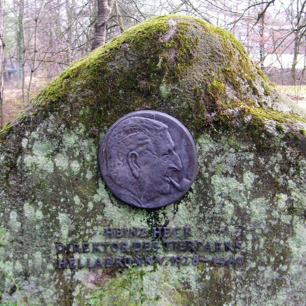 Plaque at the zoological garden "Tierpark Hellabrunn" in Munich, honoring its former director Heinz Heck.